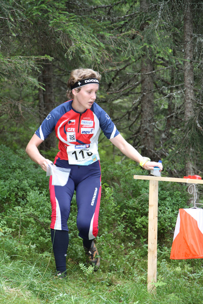 Relay at WOC2010 Iveta Duchová (CZE), Middle distance, WOC 2010